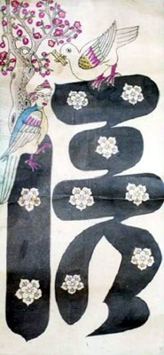 Minhwa (Korean folk painting) - Munjado